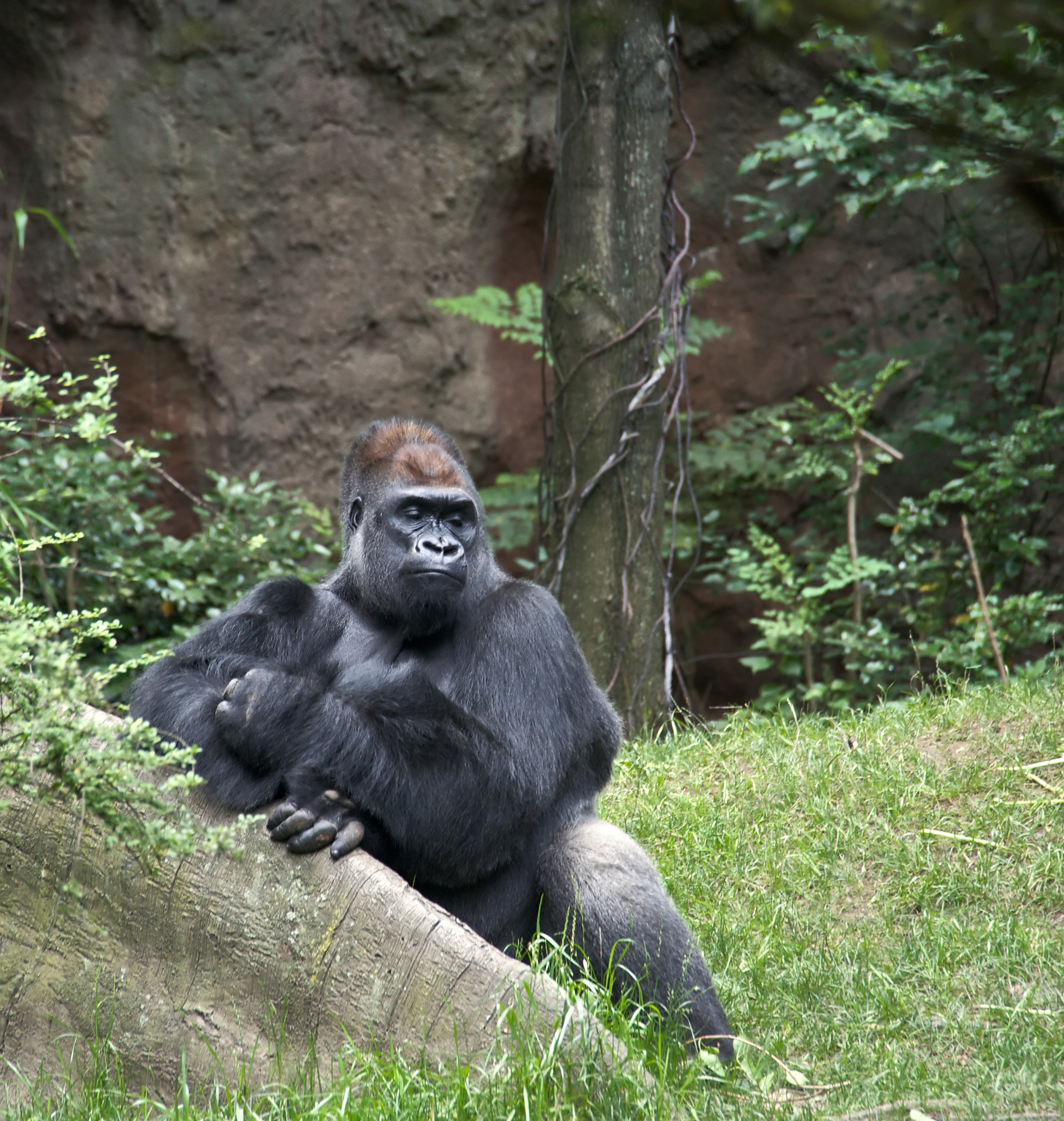 Western Lowland Gorilla at the Bronx Zoo